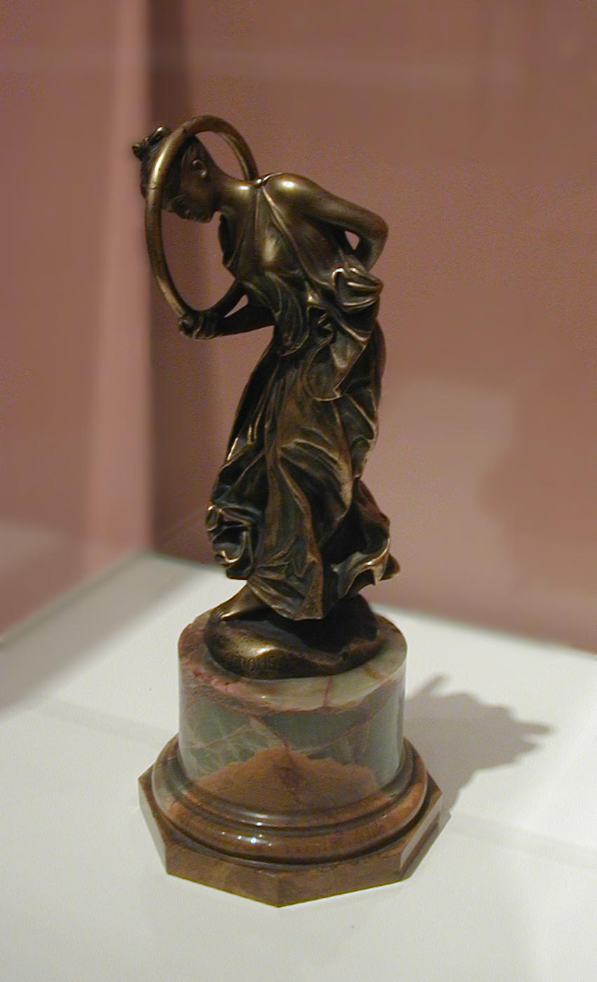 Hoop Dancer (before 1895) by Jean-Léon Gérôme, Haggin_Museum,Stockton, CA; seen in his painting "The Artist and His Model